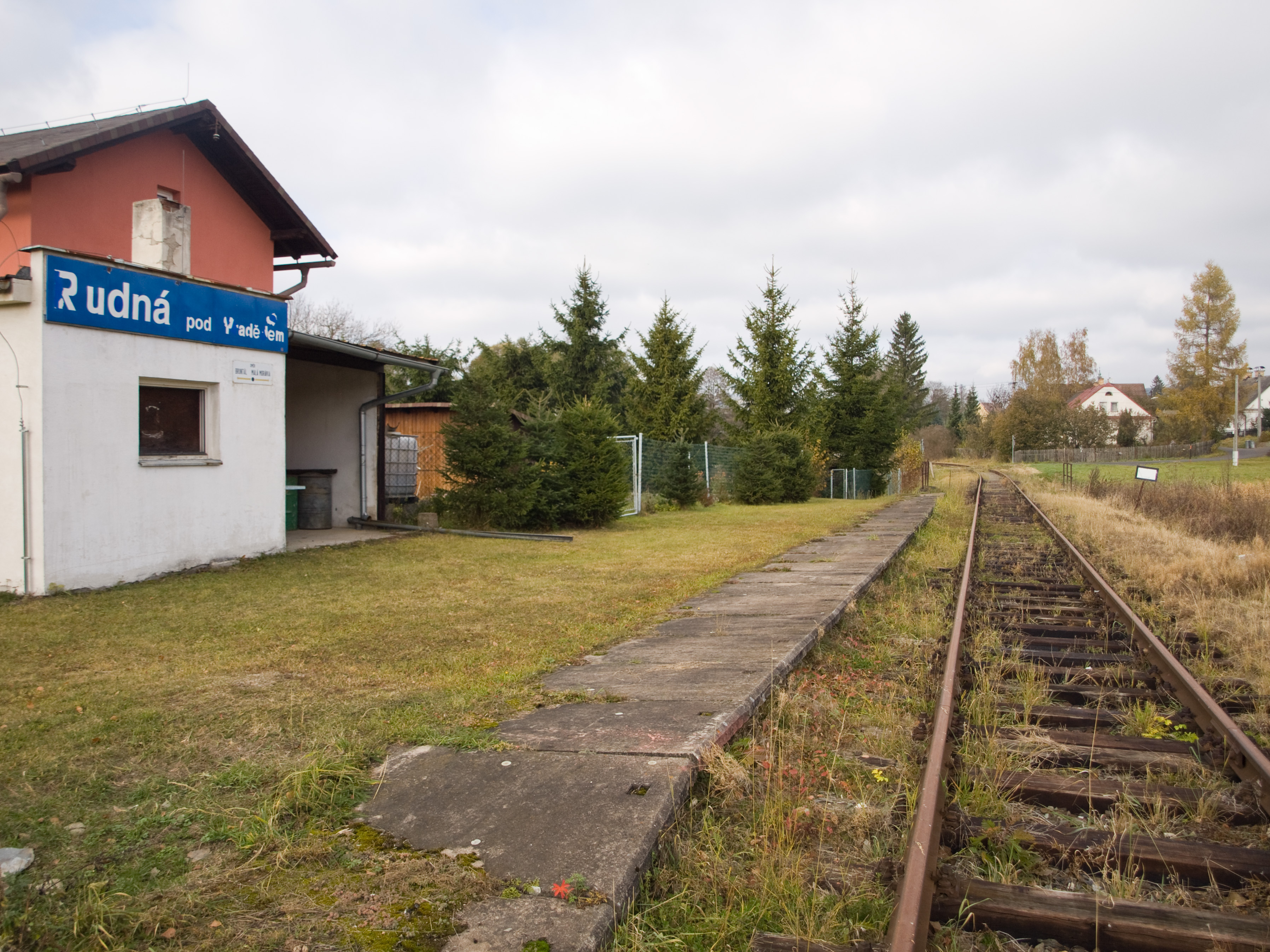 Train stop Rudná pod Pradědem, railway track n. 312 Bruntál – Světlá Hora – Malá Morávka